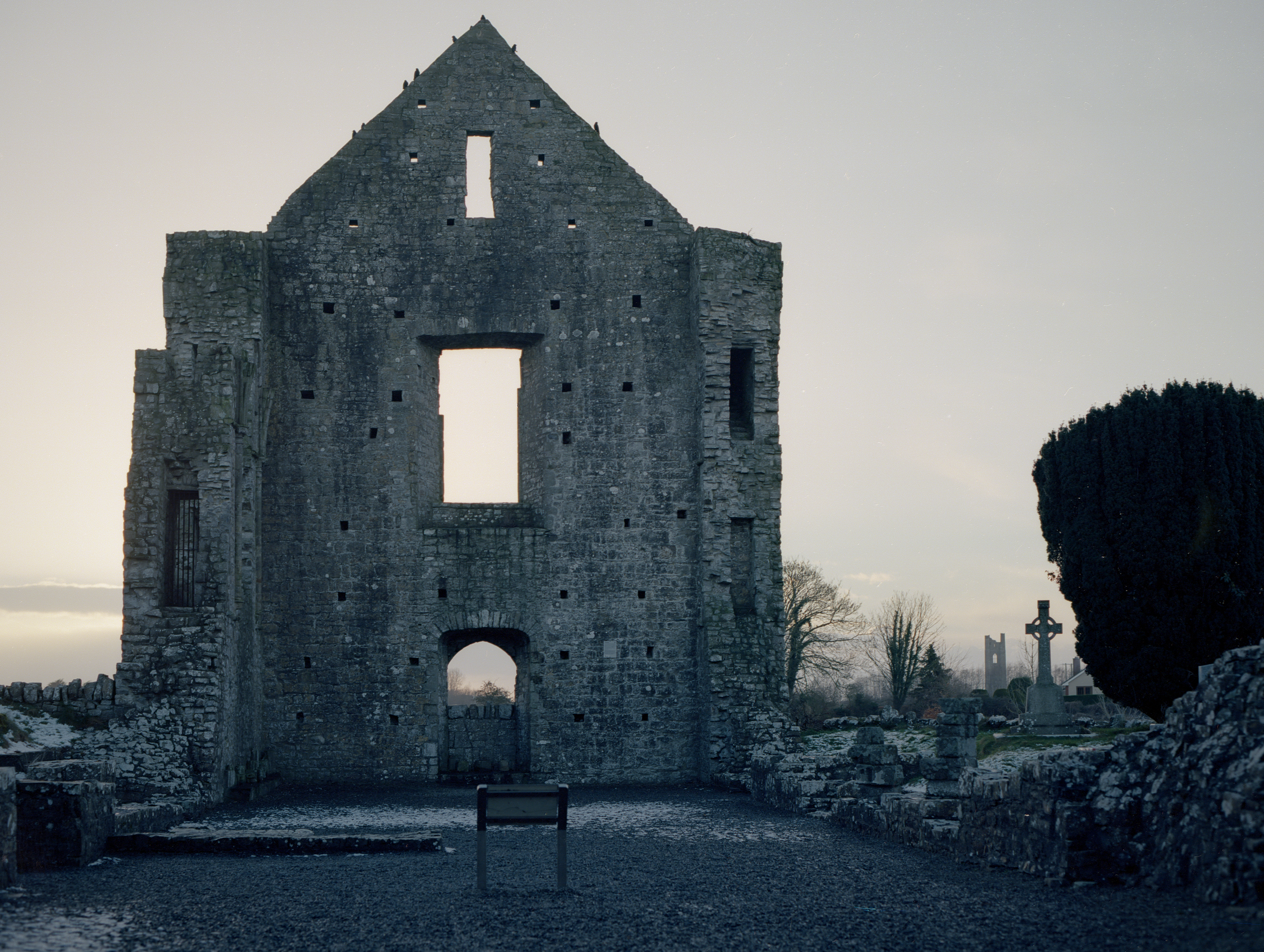 A view west along the nave of Newtown Abbey Cathedral. The Yellow Steeple is visible in the distance.